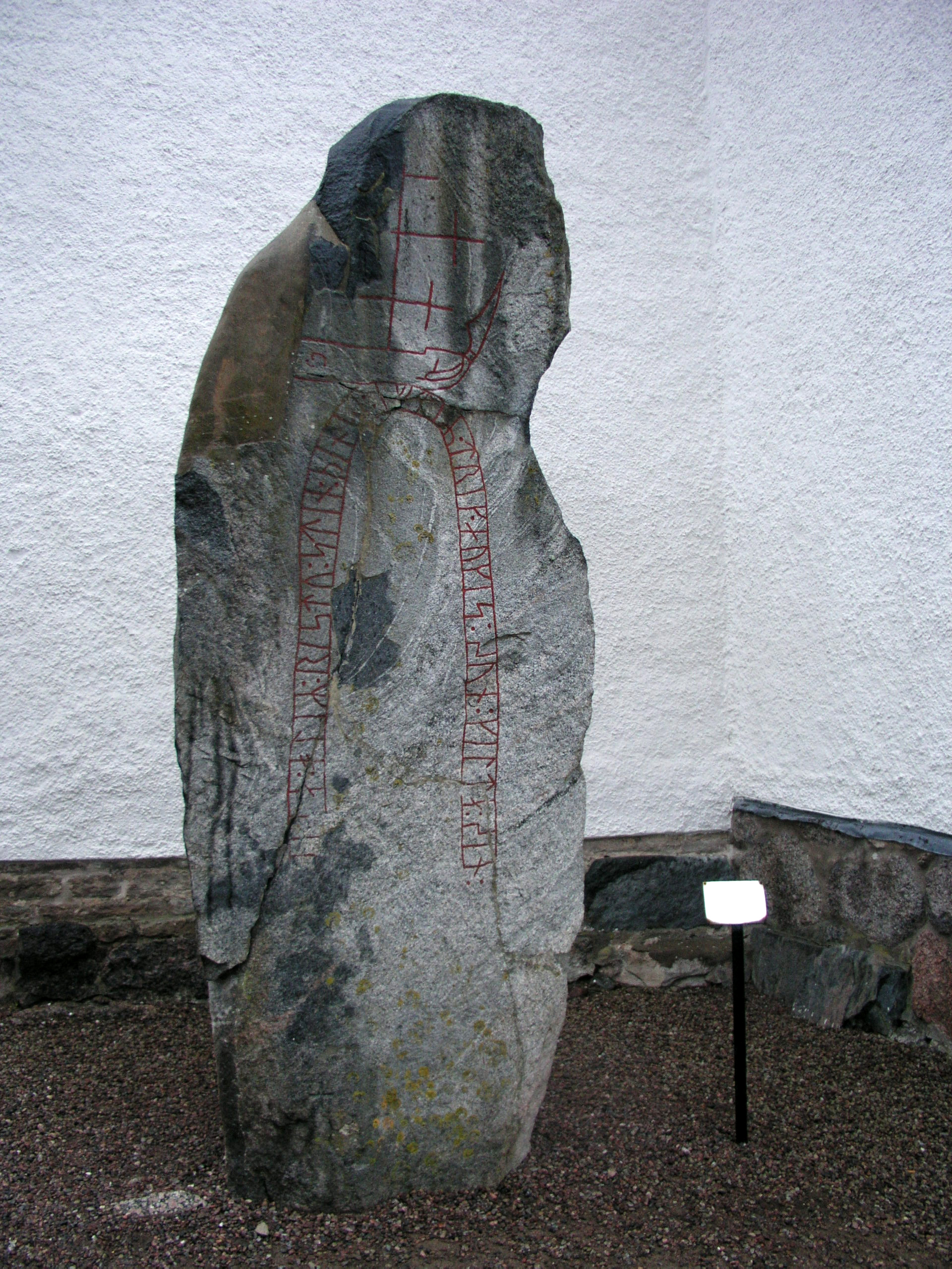 Törnevalla kyrka, Diocese of Linköping, Linköpings kommun. The picture was taken the 4th of December 2005 by Håkan Svensson (Xauxa). Rundata designation Ög MÖLM1960;230